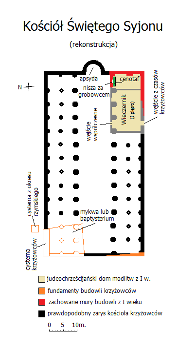 Diagram of crusaders church & Cenacle on Mount Zion; Jerusalem